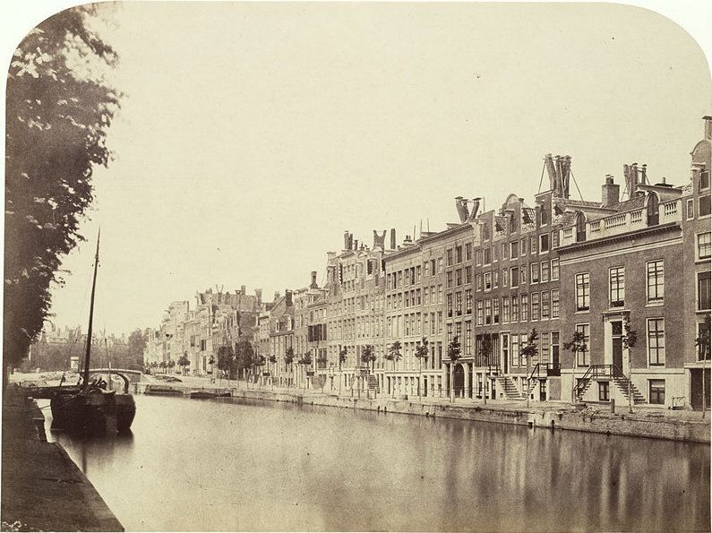 View of the Keizersgracht between the Utrechtse Straat and the Amstel, Amsterdam.